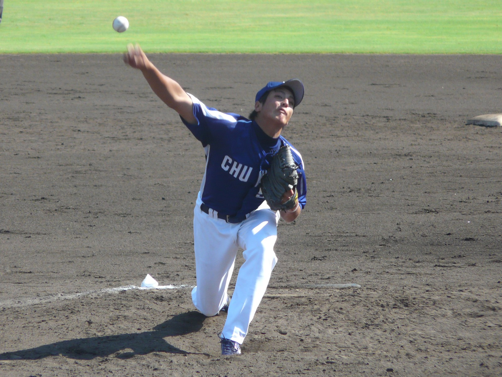 Chunichi Dragons/Ken Higuchi